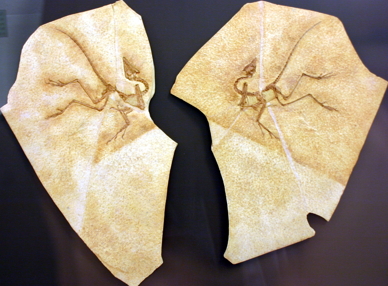 Cast of part and counterpart slabs of the Eichstätt Archaeopteryx Specimen, American Museum of Natural History.